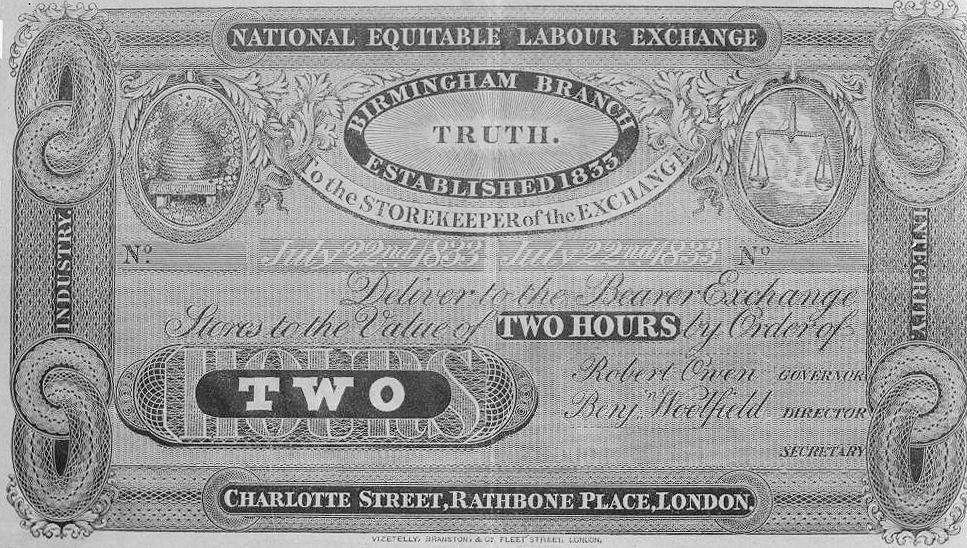 Abstract: Truck system of payment by order of Robert Owen and Benj Woolfield, July 22nd 1833